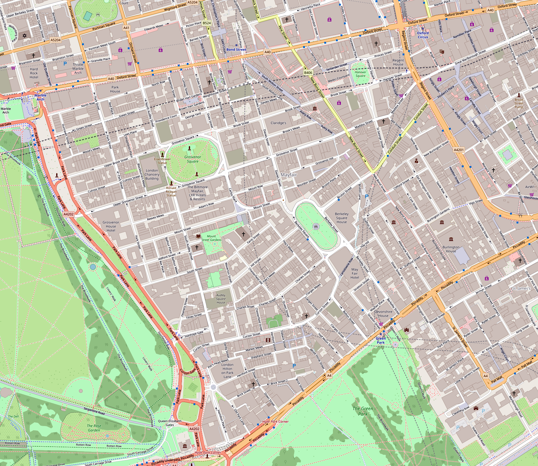 This map of Mayfair, London was created from OpenStreetMap project data, collected by the community. This map may be incomplete, and may contain errors. Don't rely solely on it for navigation.